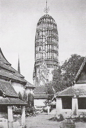 The Old Picture of Stupa in Wat Phra Si Rattana MahathatPhitsanulok,Thailand.